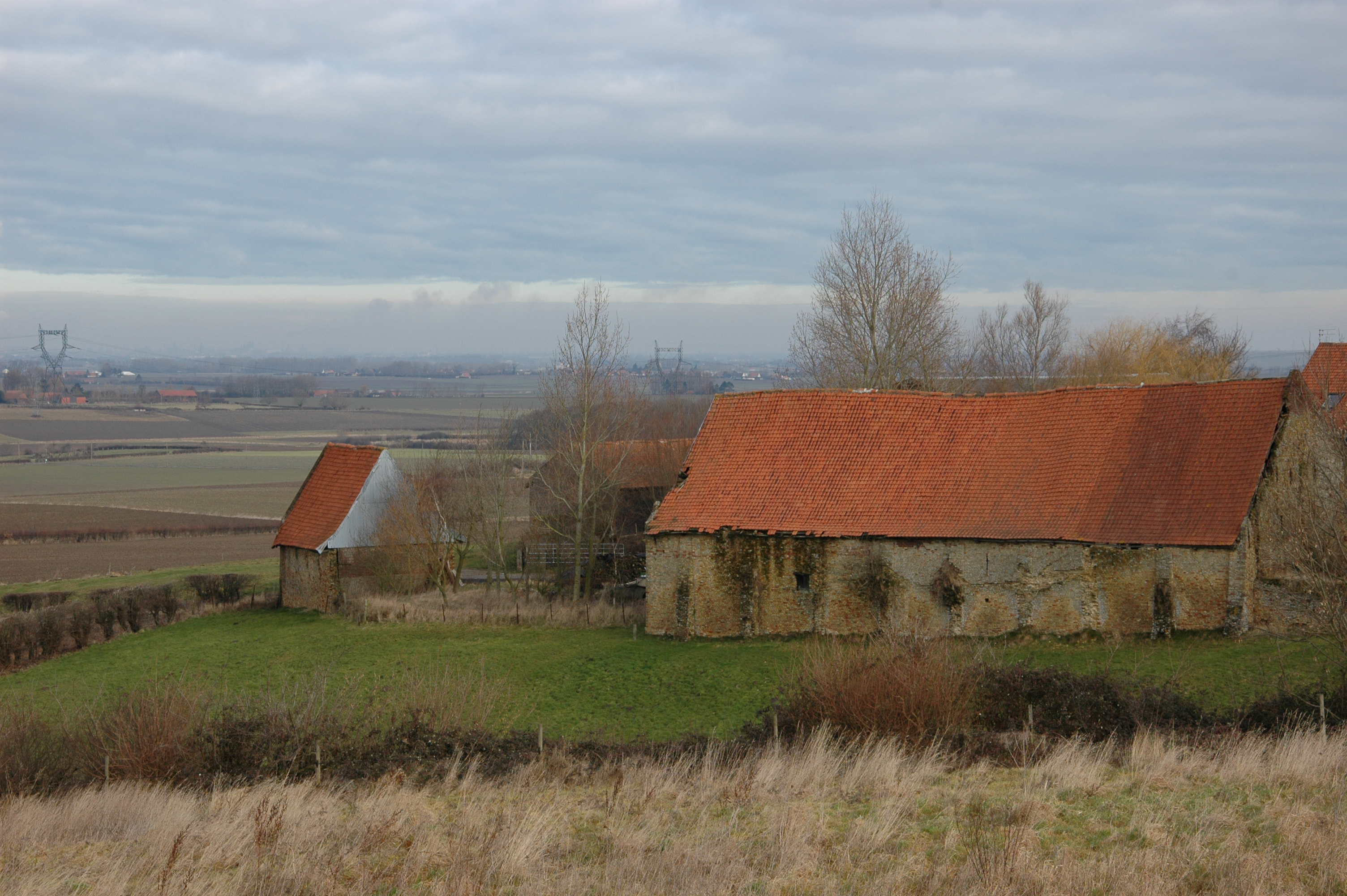 Merckeghem panorama.